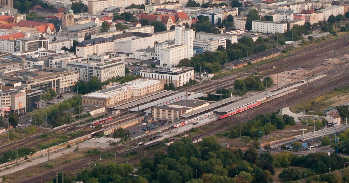 Aerial view of Magdeburg oldtown and central station